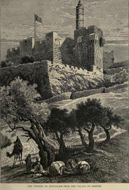 Caption: the citadel of jerusalem from the valley of hinnom.